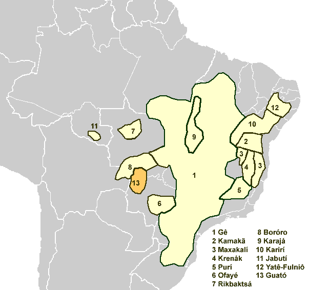 Guató language (orange), (probable spread area at the time of contact) Source: Ribeiro, Eduardo & Van der Voort, Hein (2010) “Nimuendajú was right: The inclusion of the Jabuti language family in the Macro-Jê stock”, International Journal of American Linguistics, 76/4.